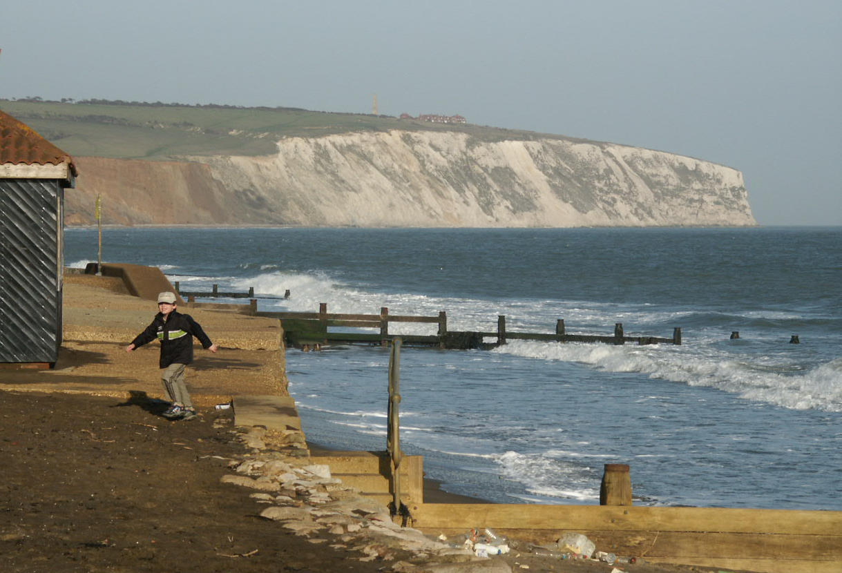 Culver Down, Isle of Wight, 2003 Taken by Naturenet